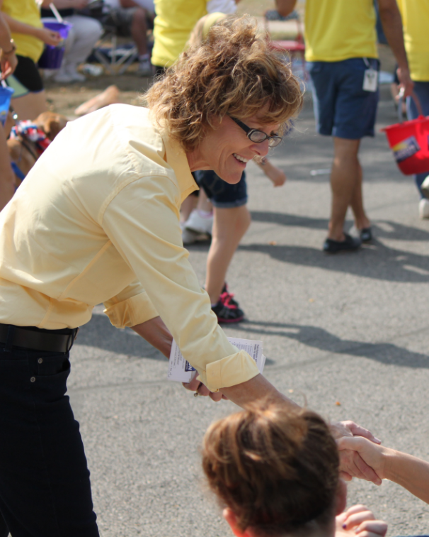 Pam Gulleson shakes hands with voters at the West Fest parade in West Fargo, North Dakota, on 15 September 2012.